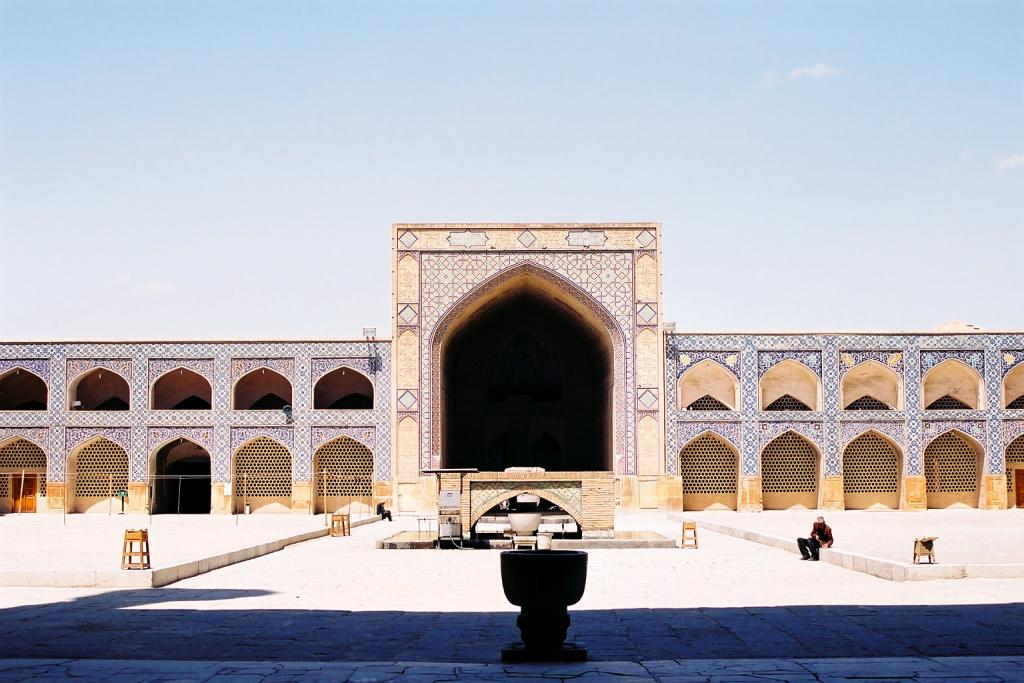 North east iwan of the Masjid-s Jomeh in Esfahan, Iran.